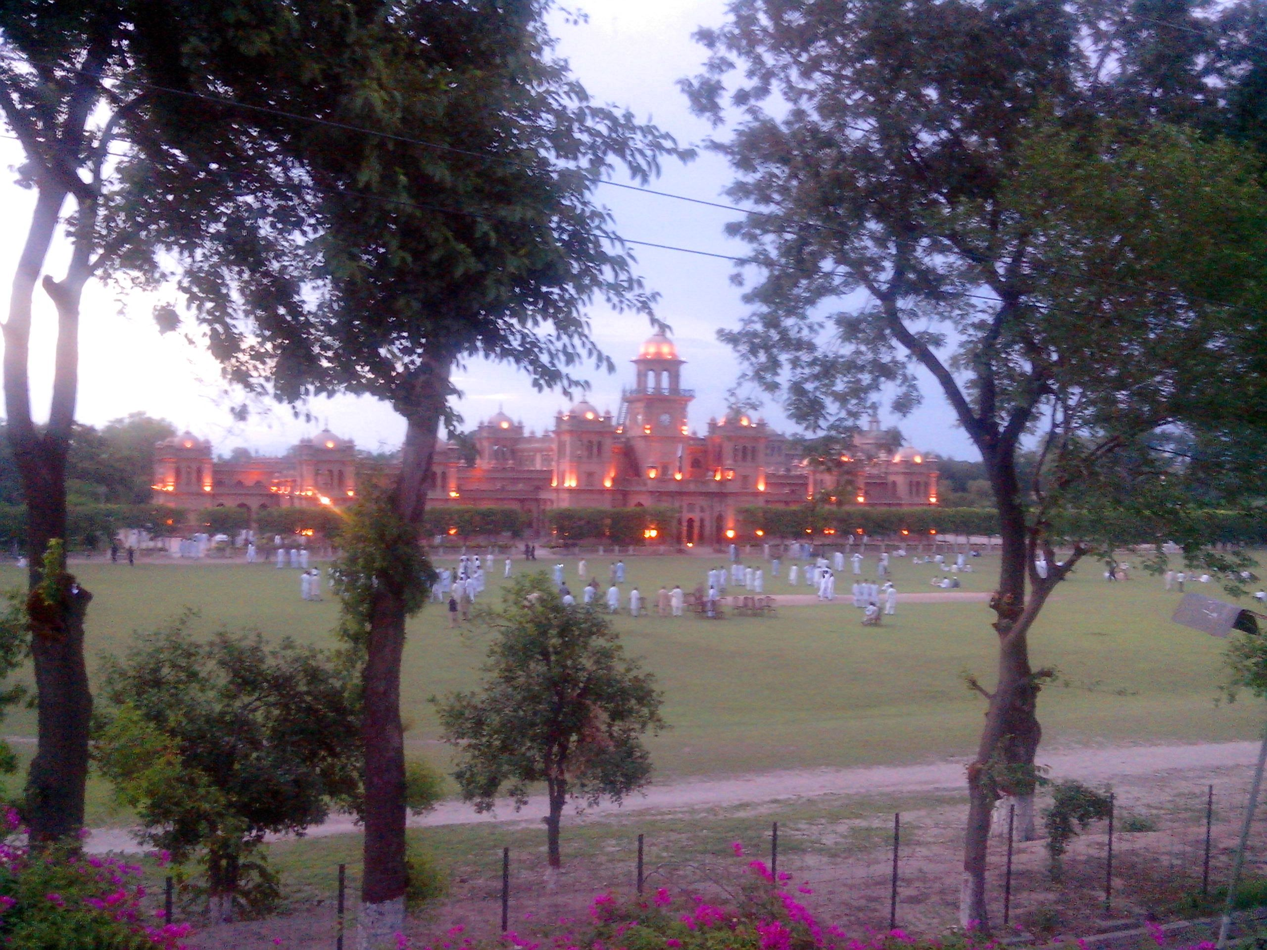 Islamia College Peshawar This is a photo of a monument in Pakistan identified as the KPK-83